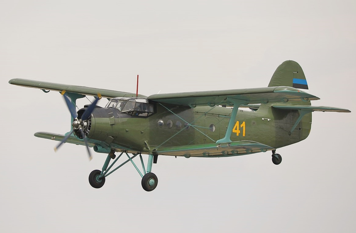 Antonov AN-2 over RIAT 2018